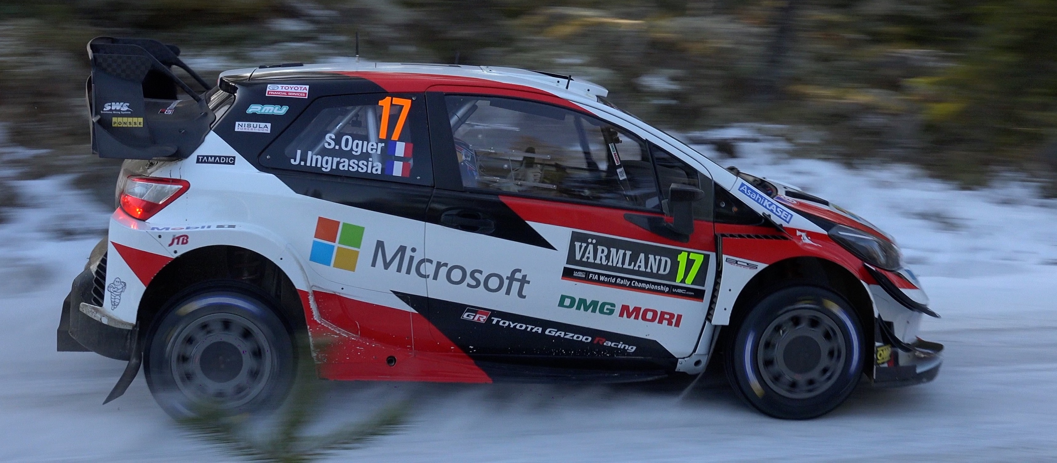 Ogier at Rally Sweden 2020.